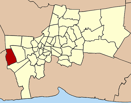 Map of Bangkok, Thailand, highlighting the district (khet) Nong Khaem (หนองแขม)